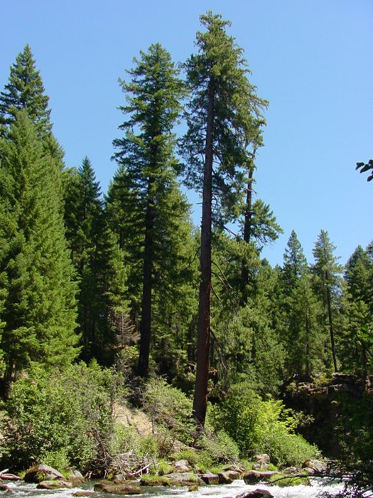 Pinus lambertiana old trees near Prospect, Oregon